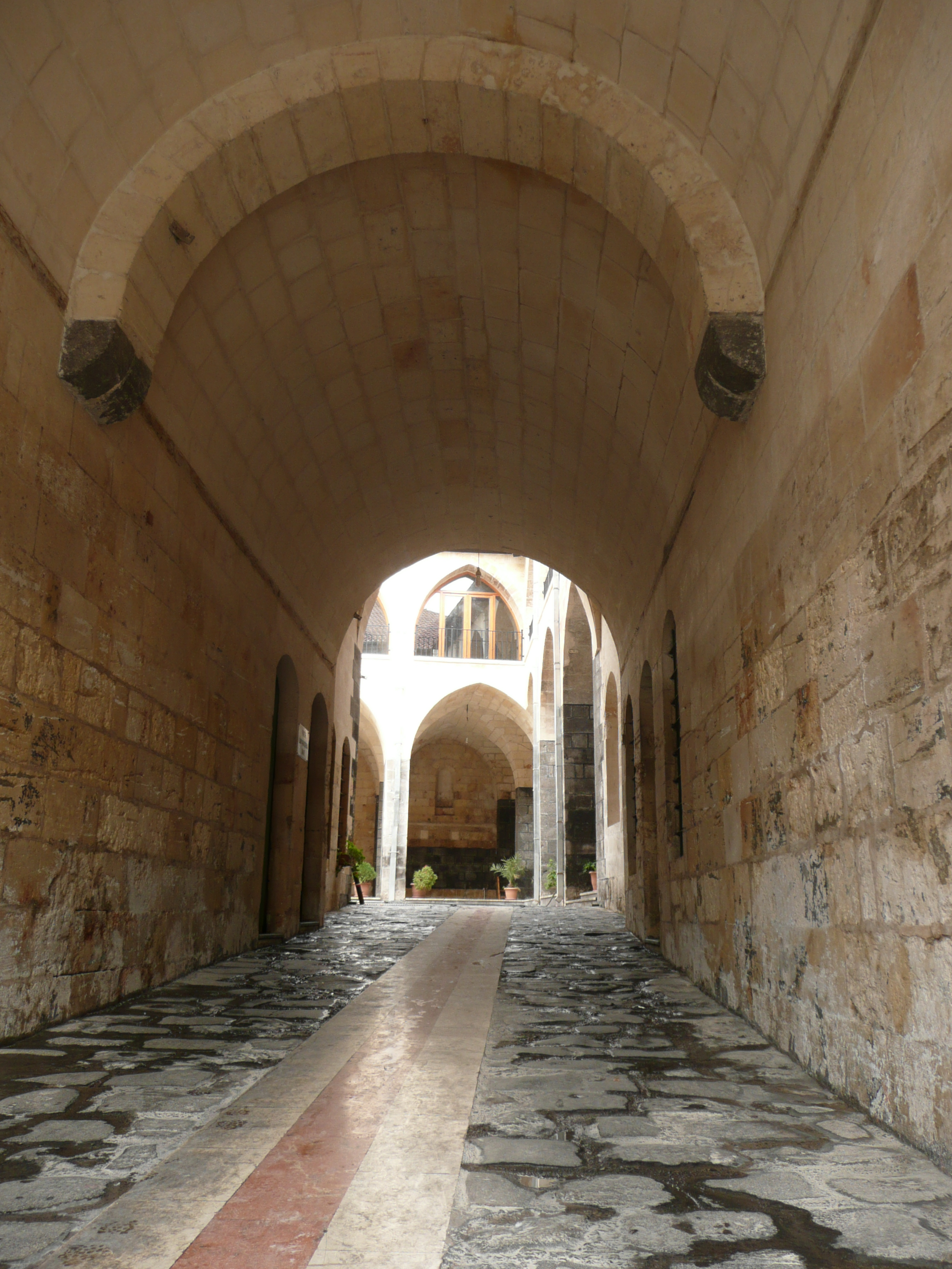 Photographs from Gaziantep